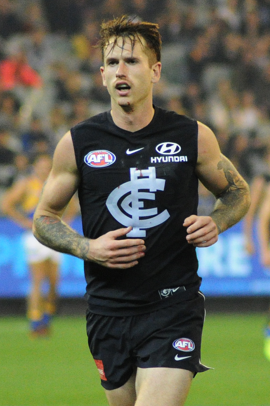 Cam O'Shea during the AFL round five match between Carlton and West Coast on 21 April 2018 at the Melbourne Cricket Ground in Melbourne, Victoria.